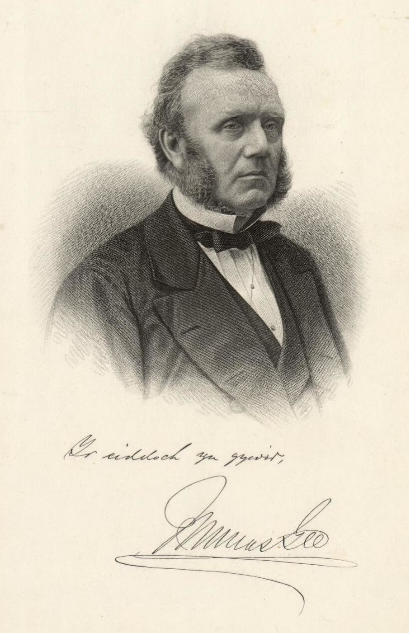 A portrait from the Welsh Portrait Collection at the National Library of Wales. Depicted person: Thomas Gee – British journalist